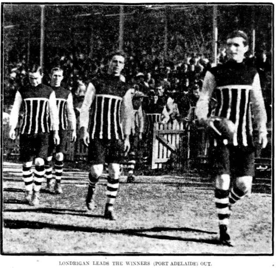 Port Adelaide football club captain John Londrigan leads the Port Adelaide players onto Adelaide Oval to play the first game of the year against SOuth Adelaide on May 2nd 1914. The result South Adelaide was 7.8 (50) to Port Adelaide 10.13 (73).